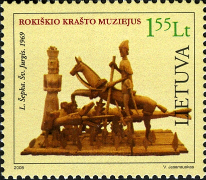 Stamps of Lithuania, 2008